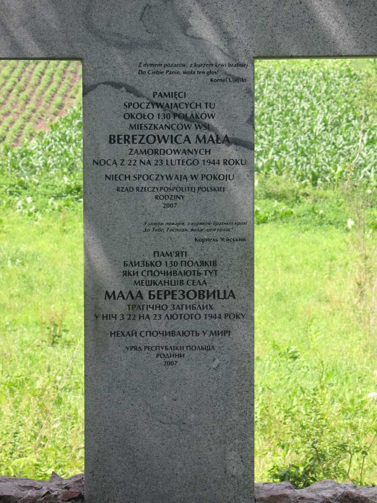 Graveyard in Berezownica Mala, Ukraine